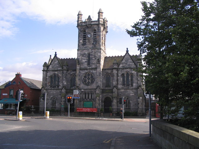 Musselburgh: St Thomas' Church, secularized old church which is now a Doll Museum.